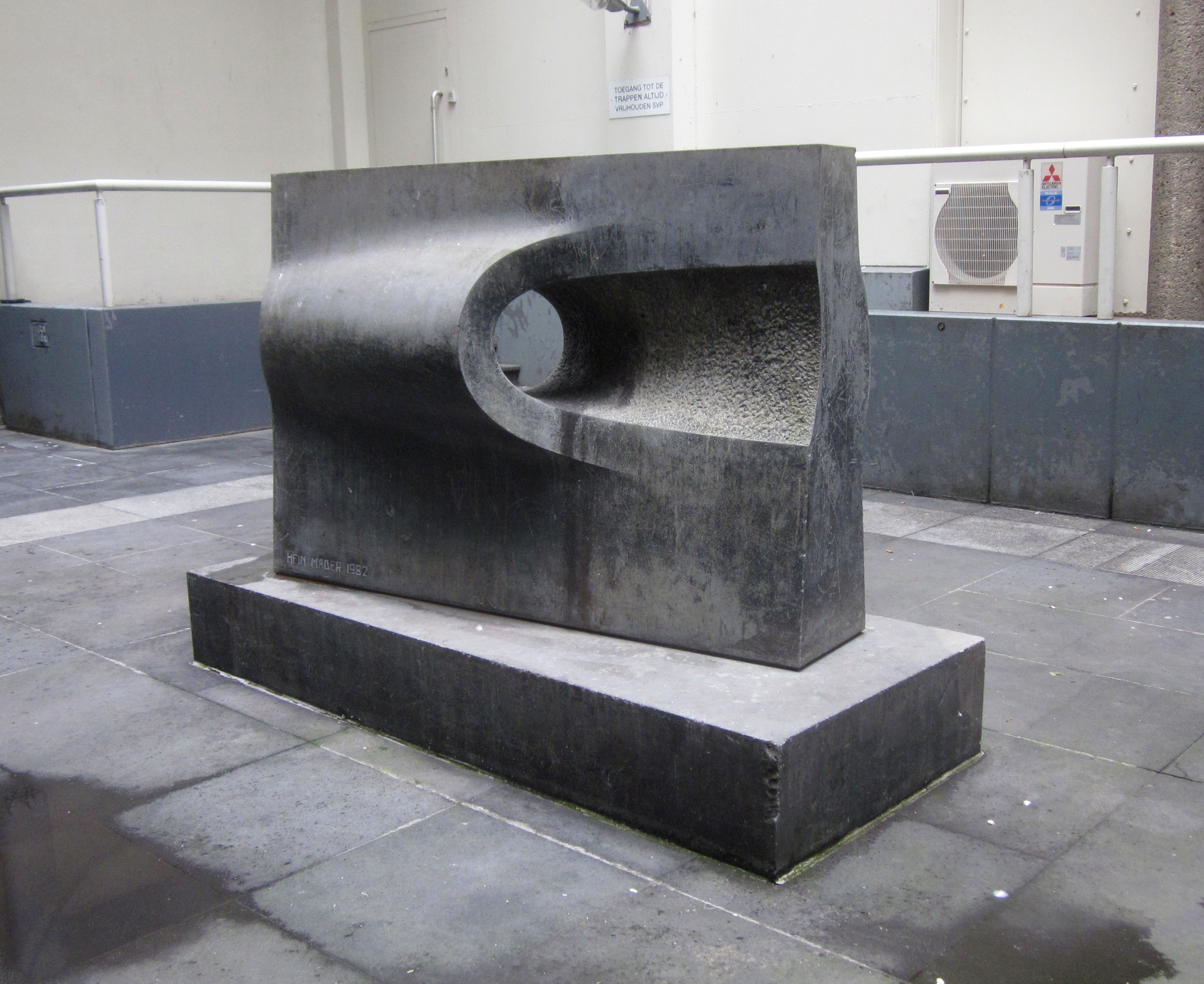 Untitled Sculpture by Hein Mader, placed in the Papenbroeksteeg in 1982.